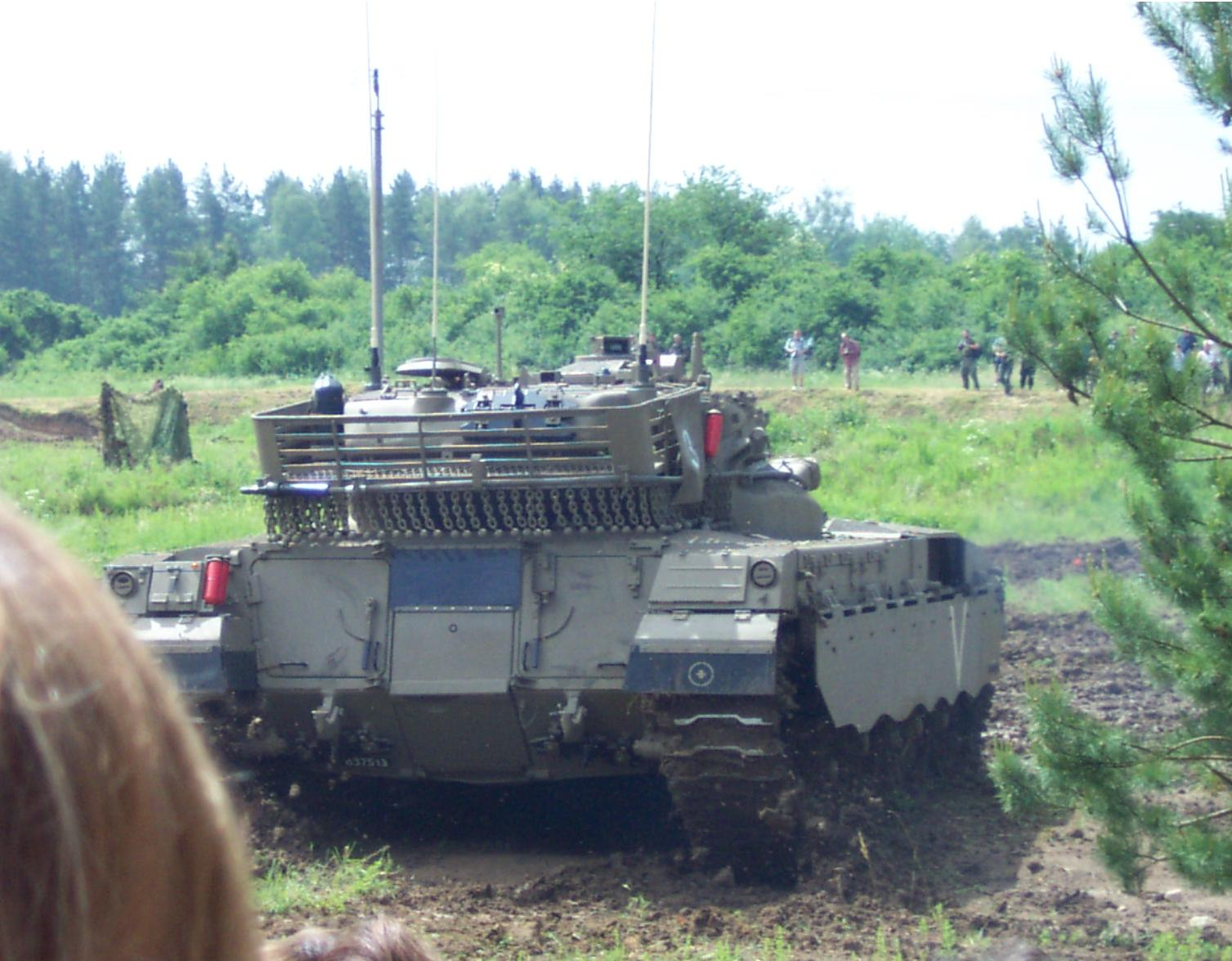 Israeli tank Merkava from the end of 1970's